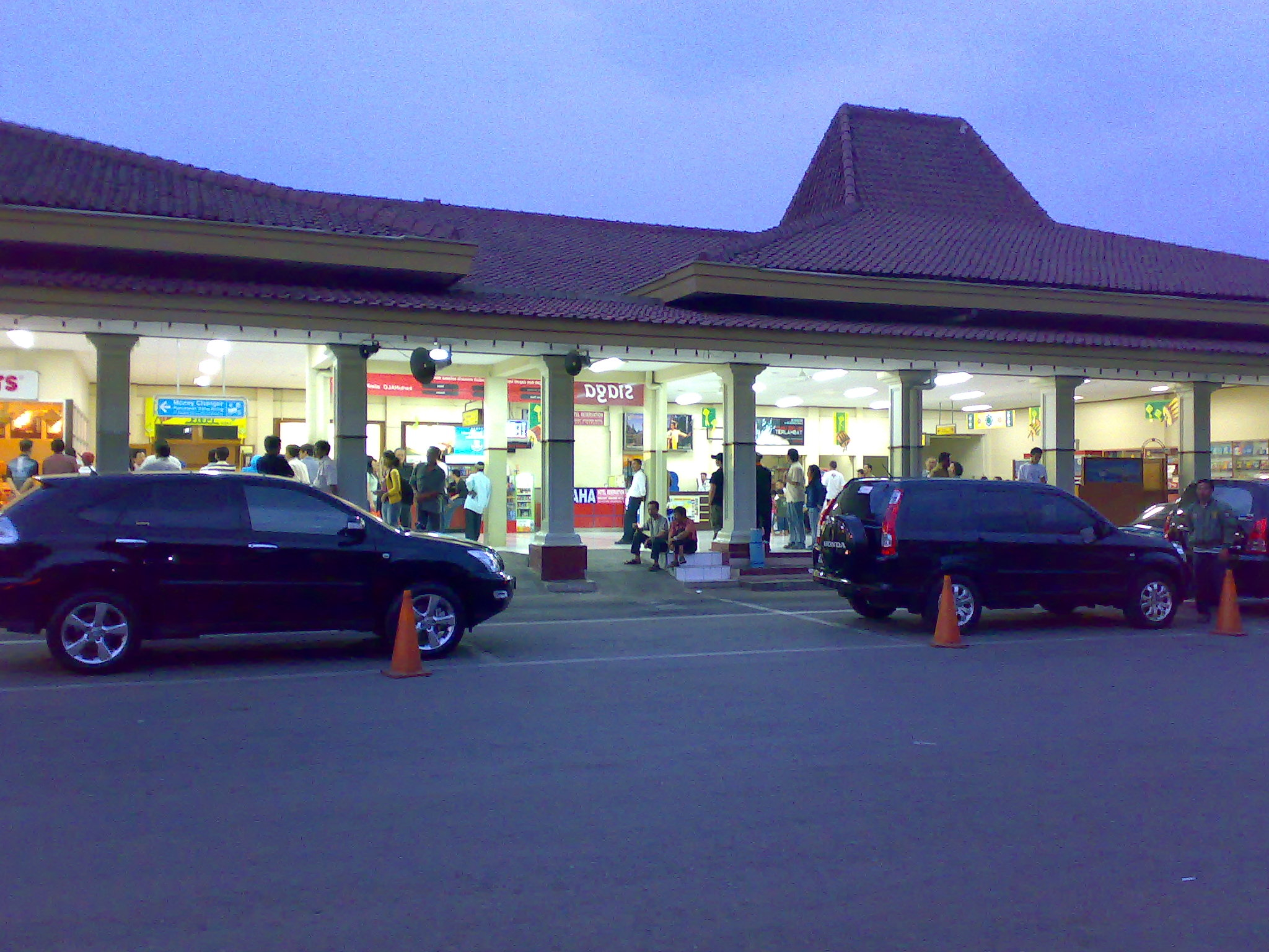 Main Terminal Building of Achmad Yani Airport Semarang